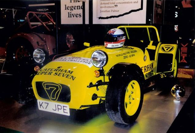 Caterham Jonathan Palmer Evolution on display at the Birmingham Motor Show.